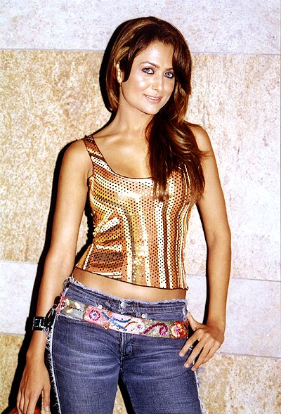 Audio launch of Rakht